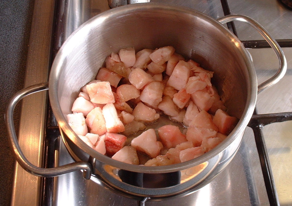 Slowly cook the suet.